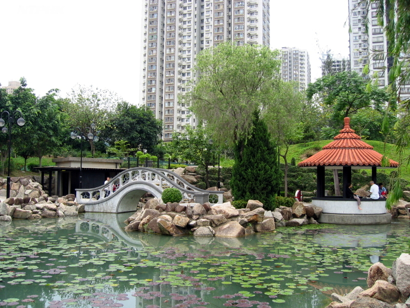 Shatin Park North Garden